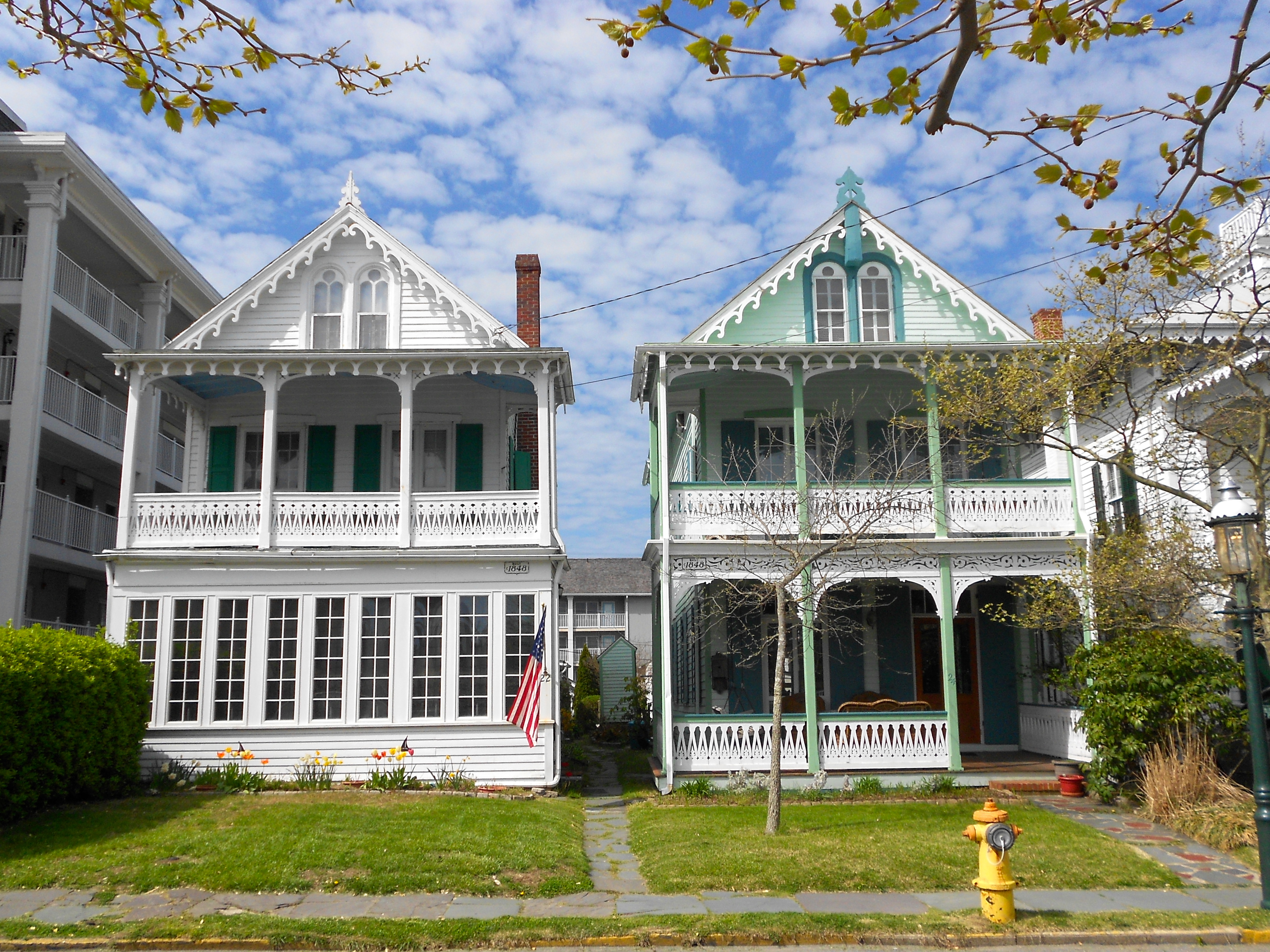 Building in the Cape May Historic District